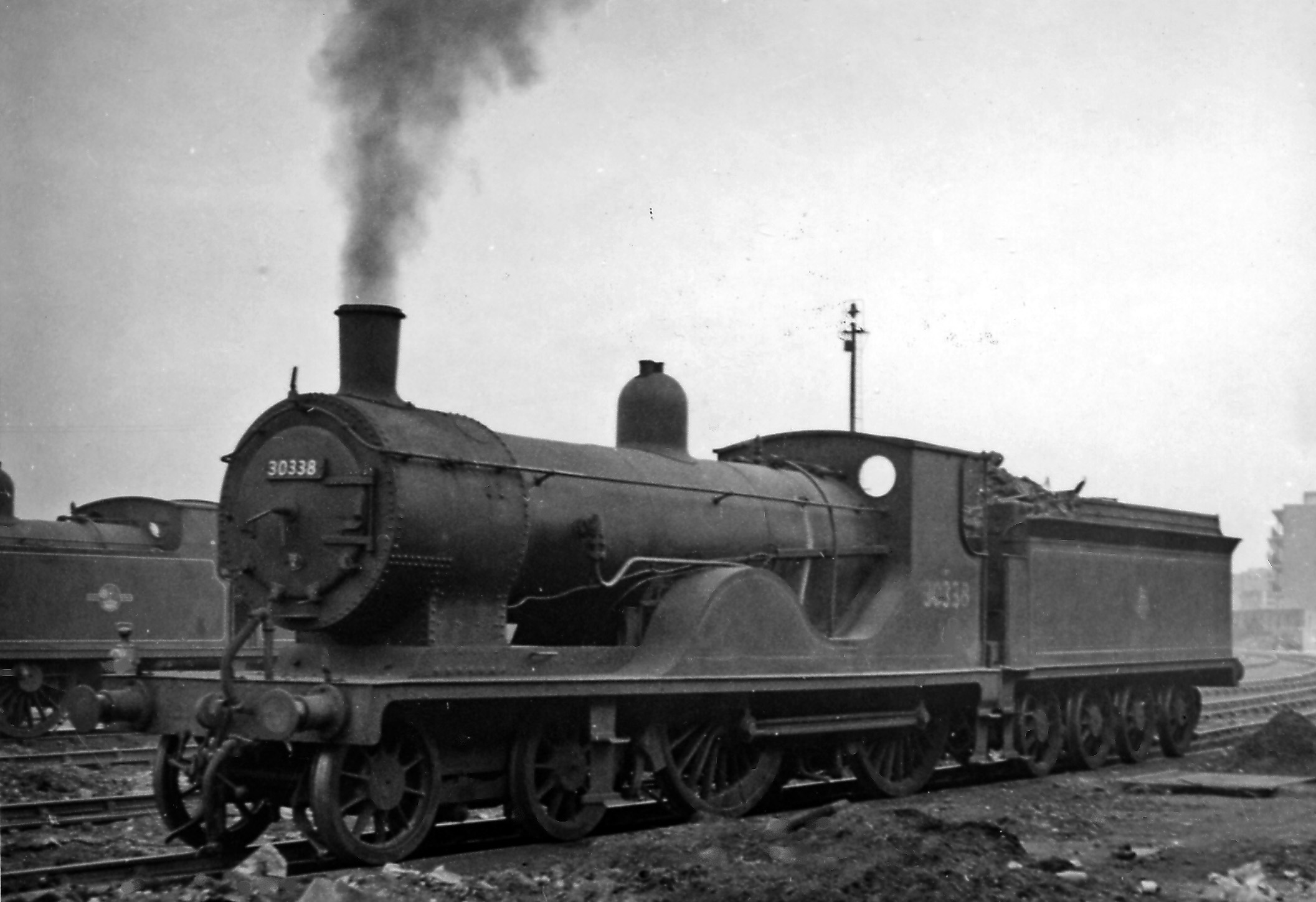 Ex-LSW 'Greyhound' 4-4-0 at Nine Elms Locomotive Depot. View in the Depot Yard, SE of the Shed. The LSW Drummond T9 class 'Greyhounds' were principal express locomotives before World War I, but remained active and useful on secondary services well into the 1950s. No. 30338 was built 10/1901, withdrawn 4/61.